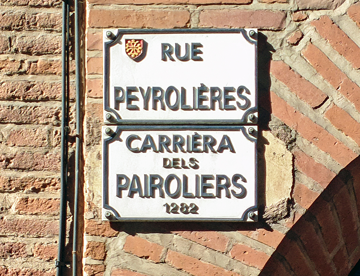 Street name sign in Toulouse. They have the particularity of being: in French and Occitan. Rue Peyrolières.